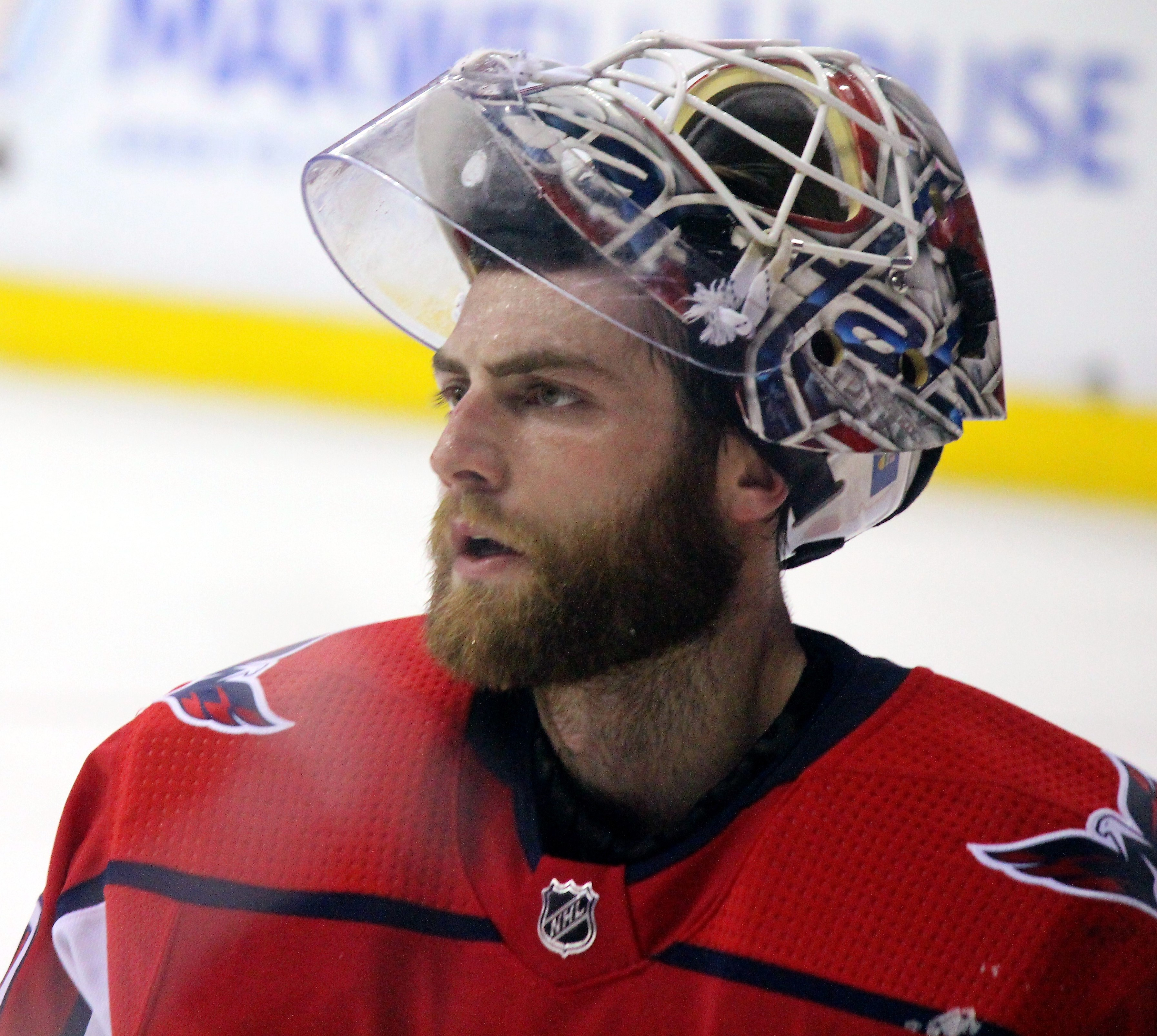 Washington Capitals goaltender Braden Holtby during game 2 of the Eastern Conference Semifinals series against the Pittsburgh Penguins, April 29, 2018, at Capital One Arena in Washington, D.C.